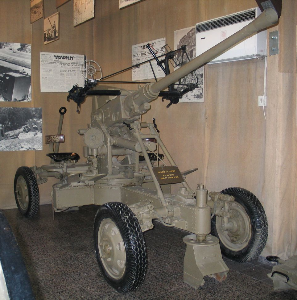 Description: Bofors 40 mm anti-aircraft gun in Batey ha-Osef Museum, Tel Aviv, Israel. 2005. Source: Photo by me, User:Bukvoed.